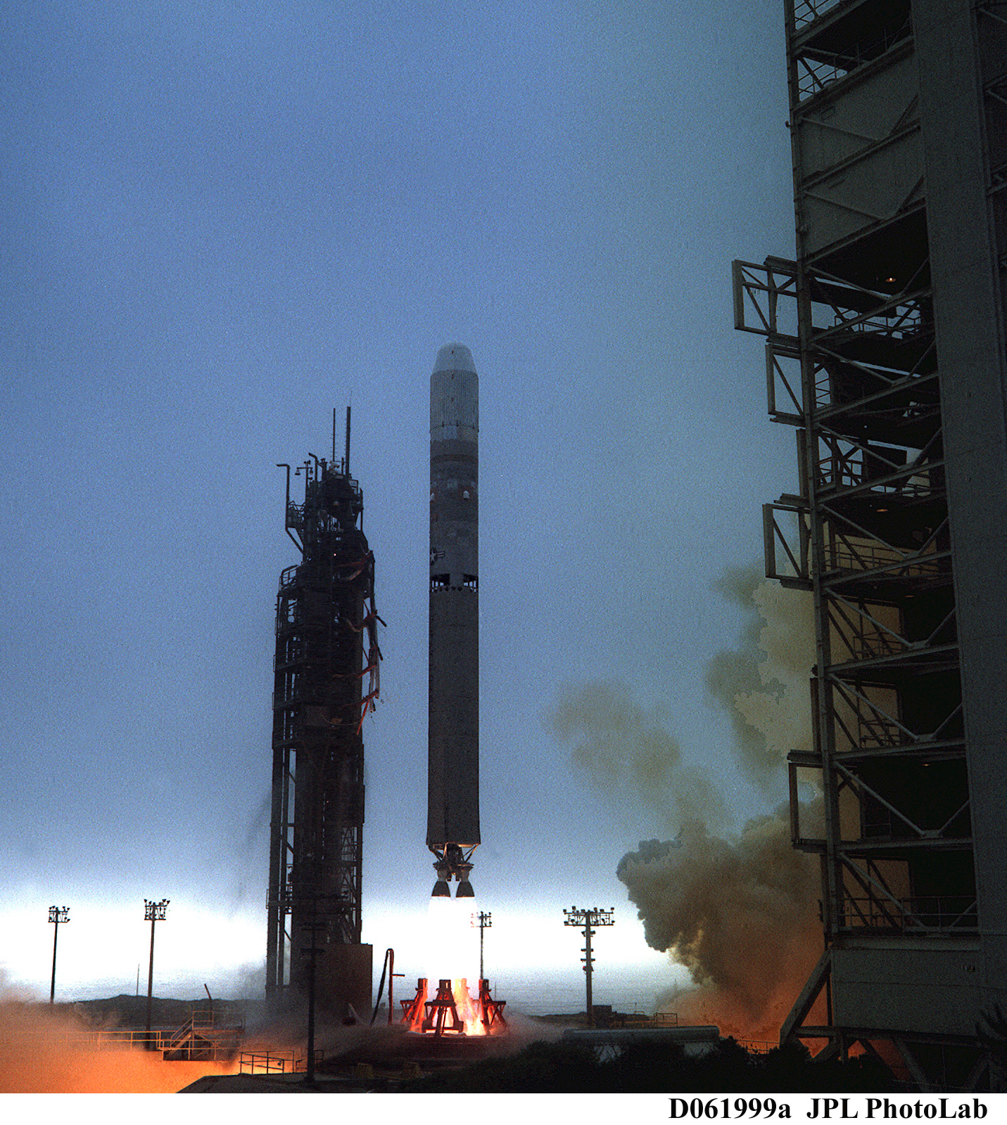 The U.S. Air Force Titan II launch carrying the QuikSCAT satellite